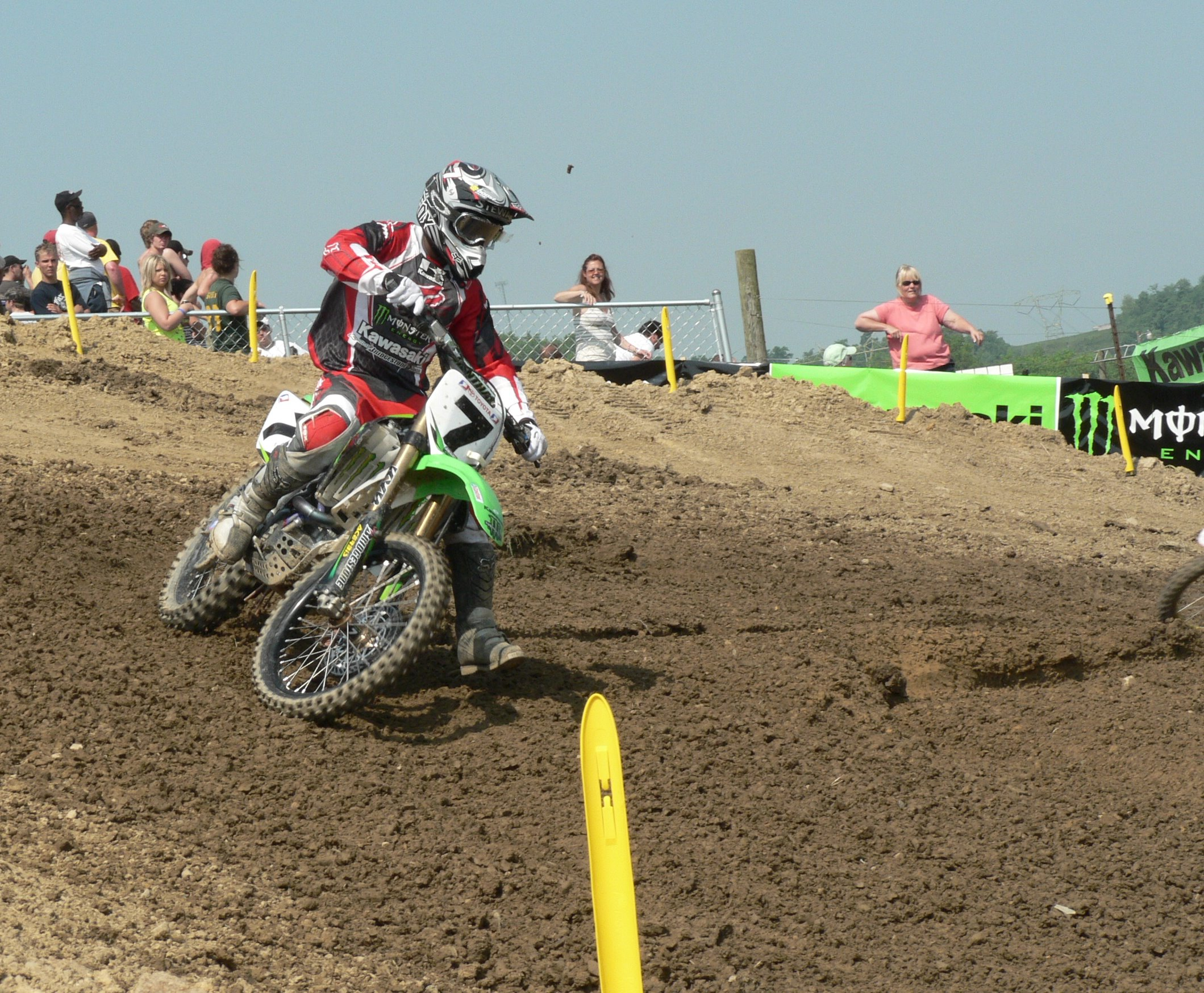 Meet the new boss. The G.O.A.T - Ricky Carmichael is retiring at the ripe old age of 26. This man is gonna take over for him. Even though in the 5 races I've seen him race RC he's either come in second or ditched the bike he's still one of the best out there.